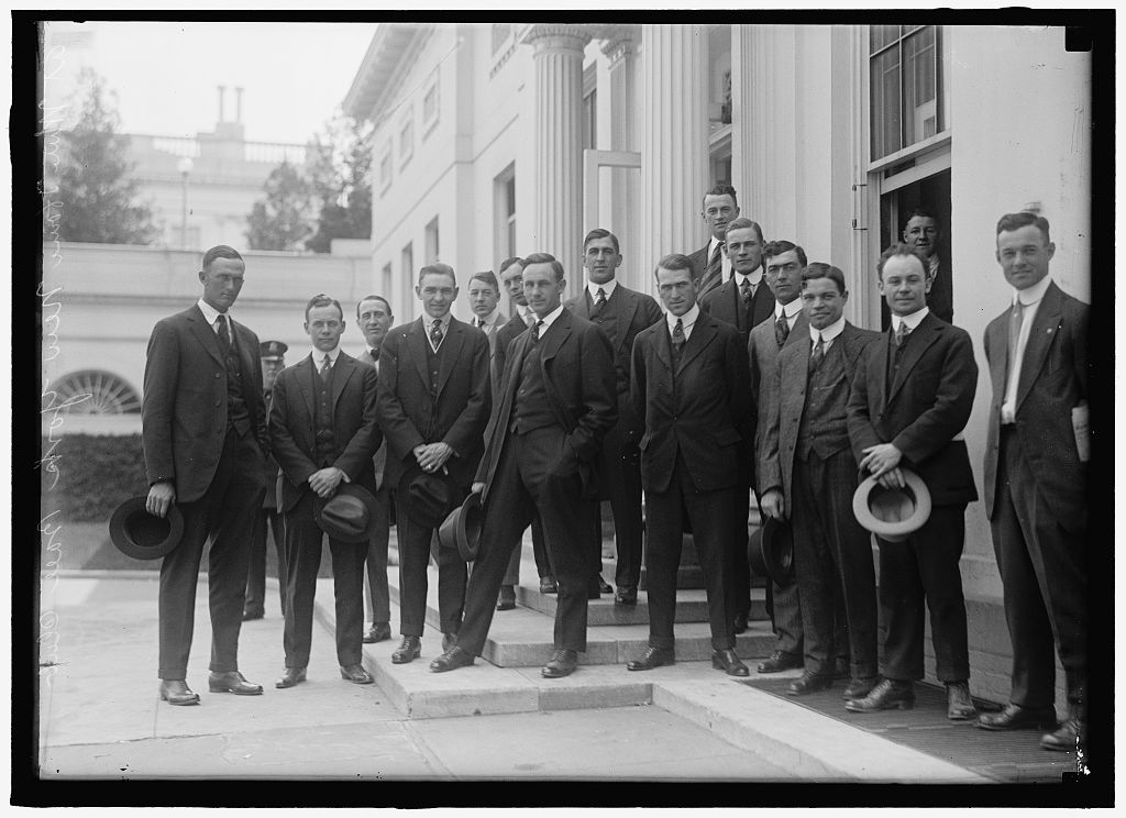 Edward "Slim" Love, cop, Charlie Mullen, ?, Bob Shawkey, ?, Luke Boone, Ray Fisher, Roger Peckinpaugh, Allen Russell, Urban Shocker, Wally Pipp, Frank Baker, Jimmy Duggan (trainer), ?, Hugh High, New York AL (baseball), at White House